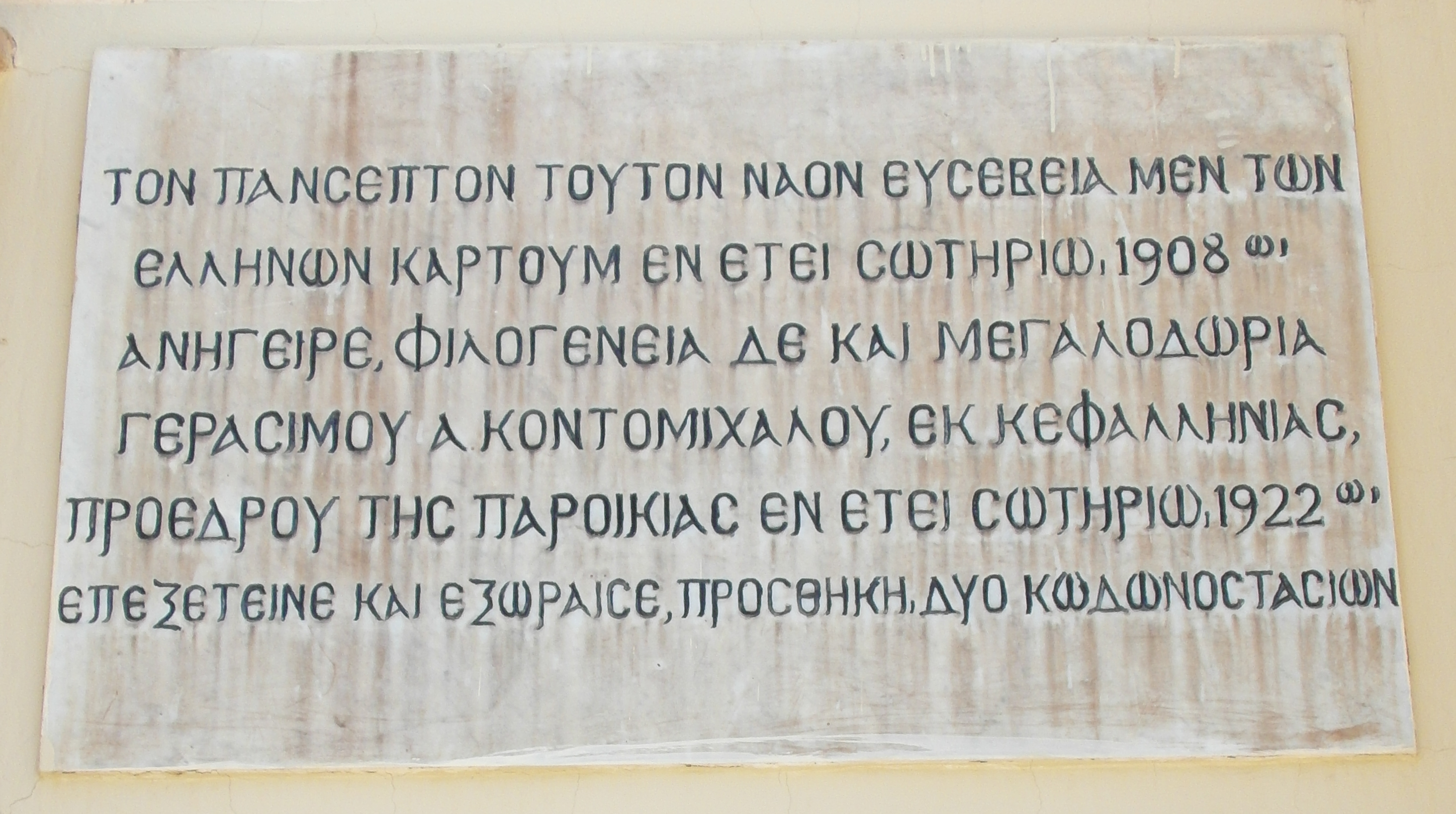 Memorial plaque at the Greek-Orthodox Church of the Annunciation in Khartoum, Sudan, honouring the long-time president of the Hellenic Community of Khartoum and its main benefactor - Gerasimos Contomichalos - for donating two bells in 1922